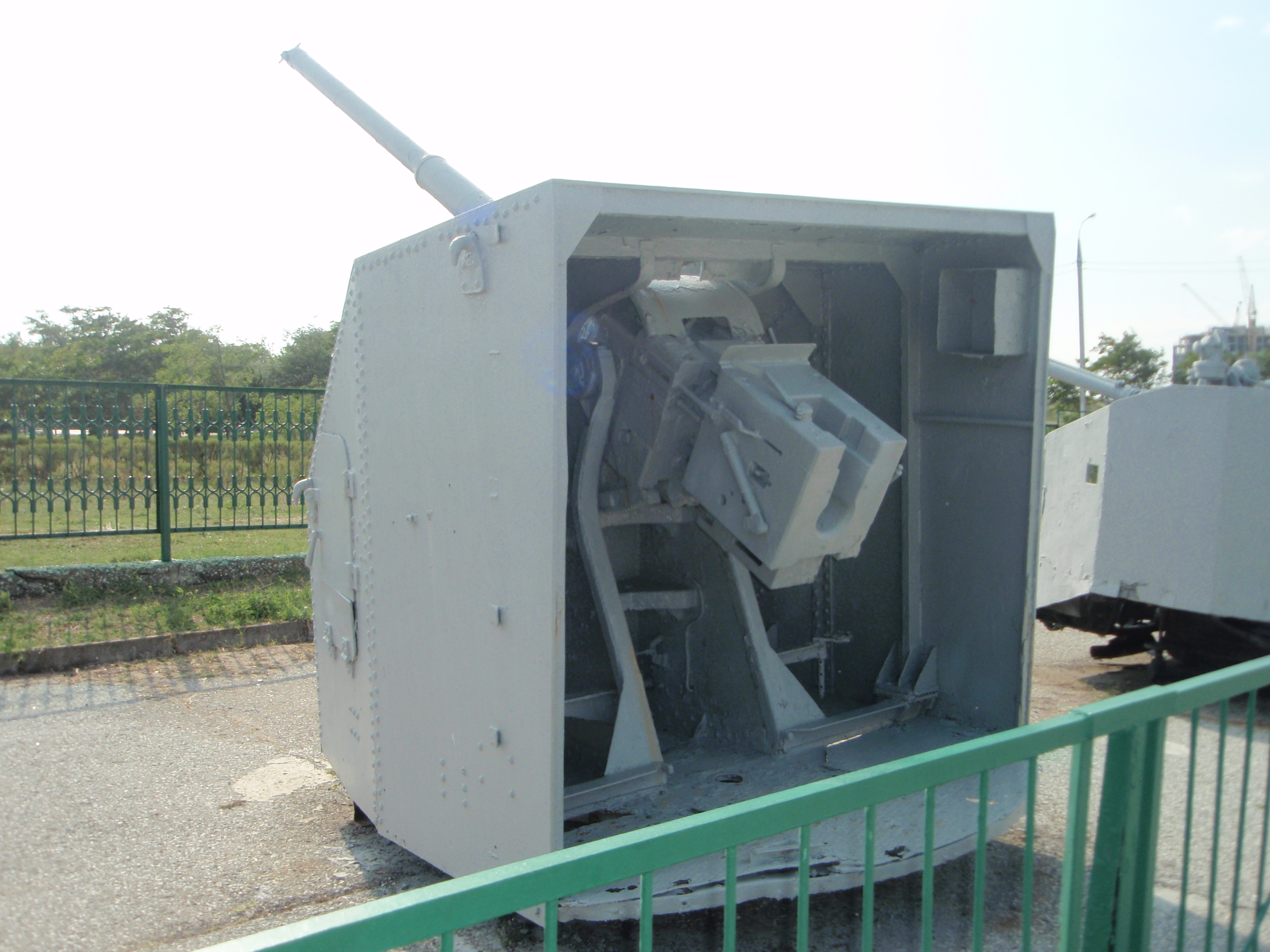 Soviet 100-mm naval guns (B-34)